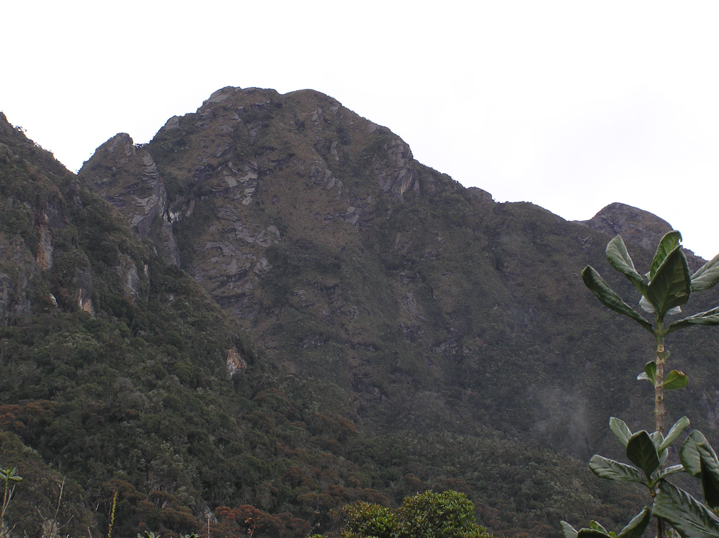 Punta Pance desde el Noreste